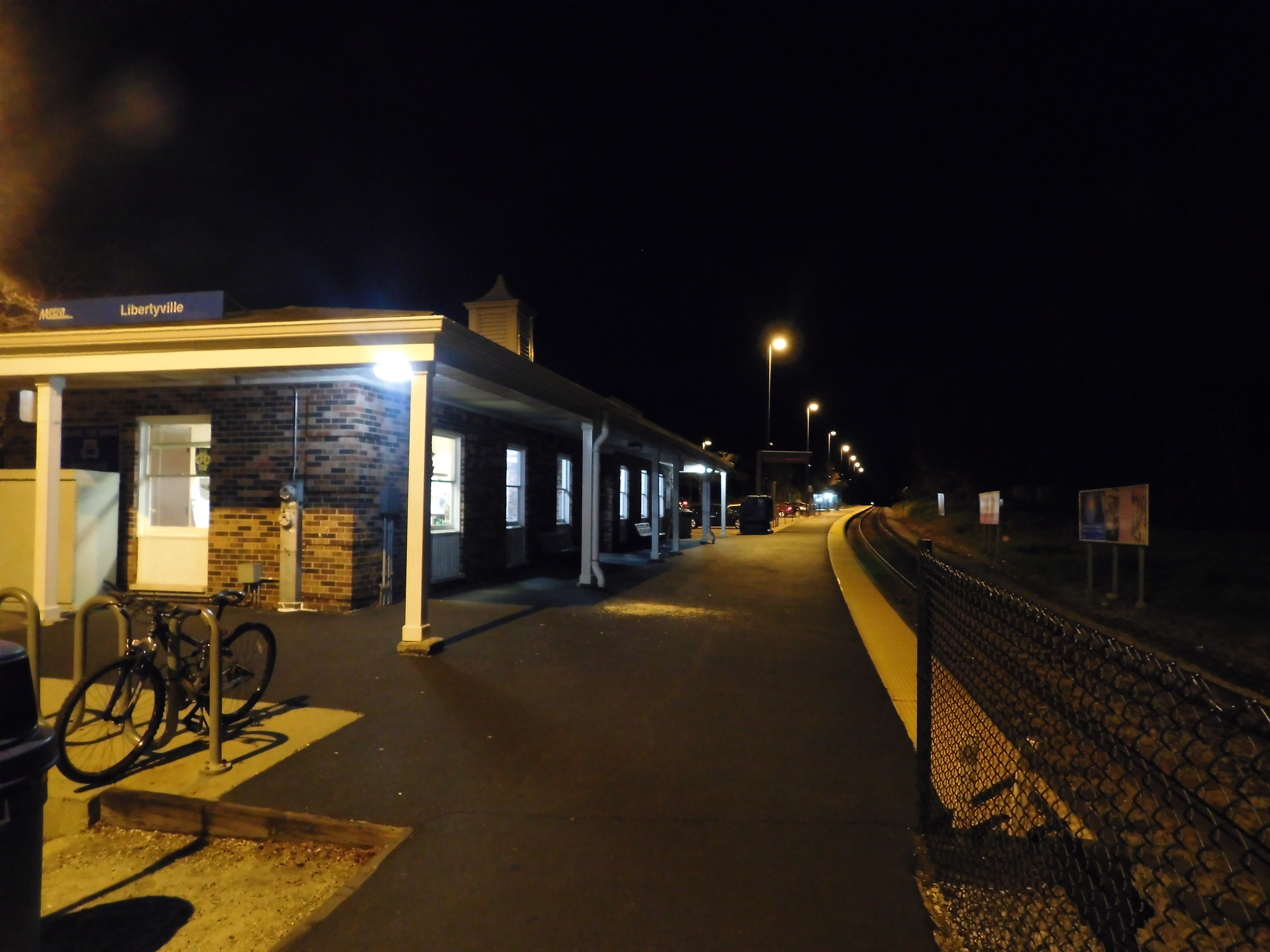 The Libertyville station of Metra in November 2016.